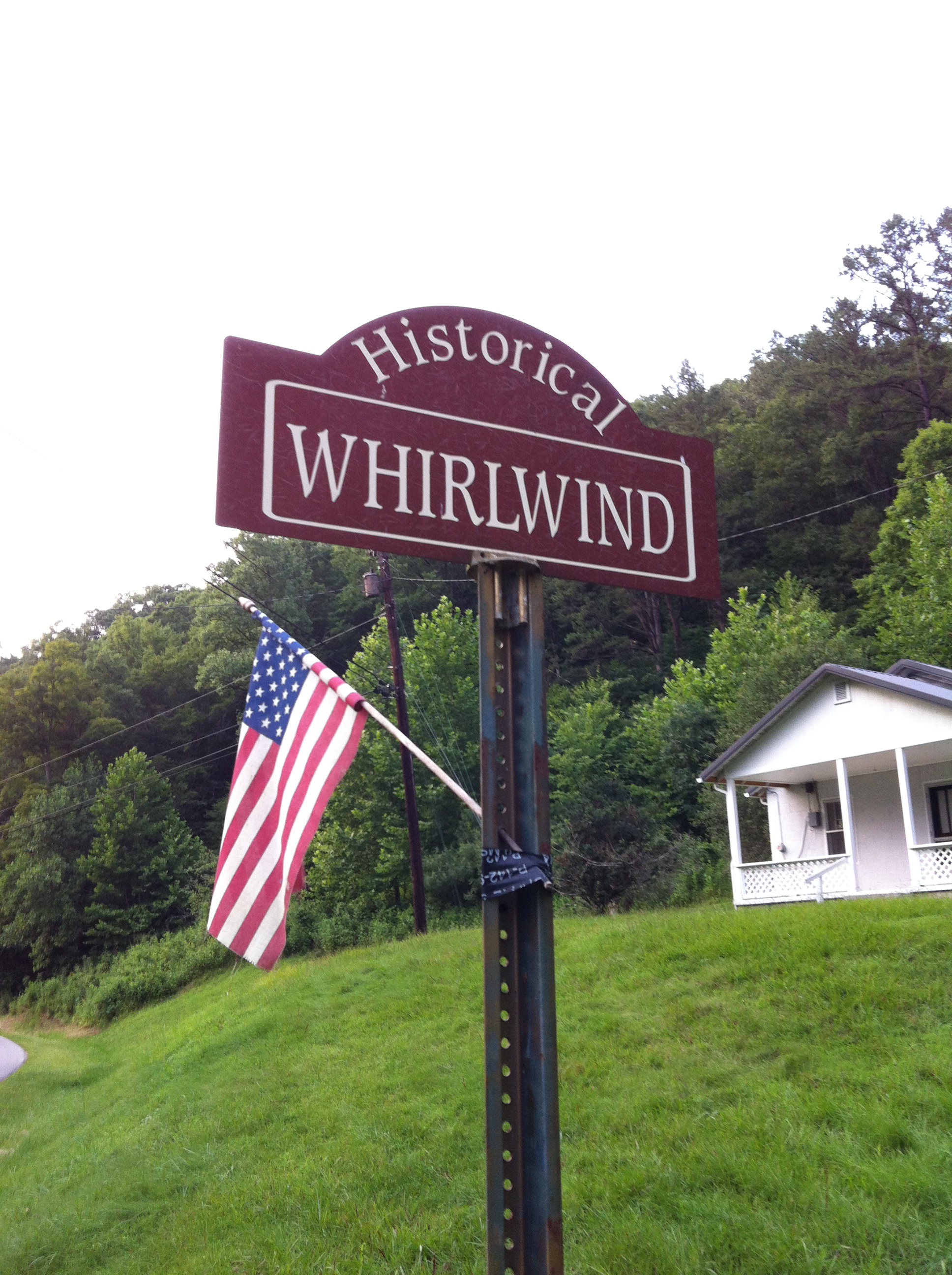 This is a historical sign for Whirlwind, WV